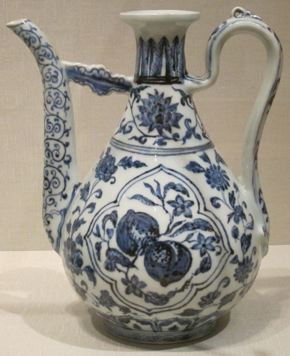 Chinese wine ewer, Ming dynasty, early 15th century, porcelain with glaze, Honolulu Academy of Arts